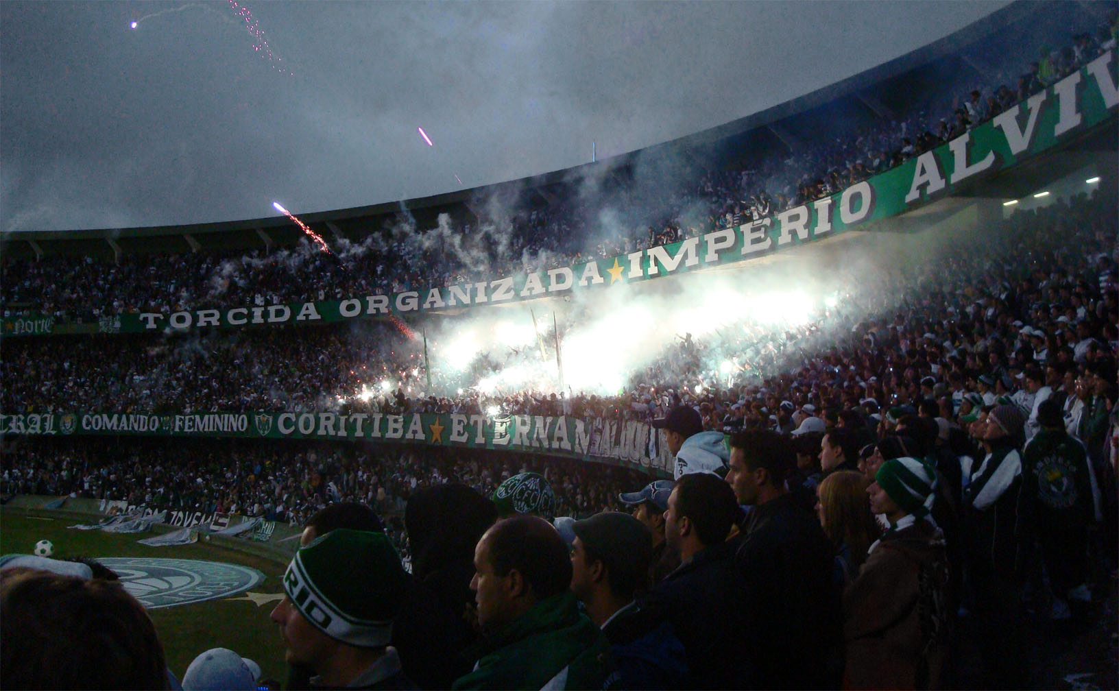 Formal "torcida" Império Alviverde during the match Coritiba vs. Cruzeiro, valid for the Campeonato Brasileiro. Estádio Couto Pereira, Curitiba, Paraná, Brazil.